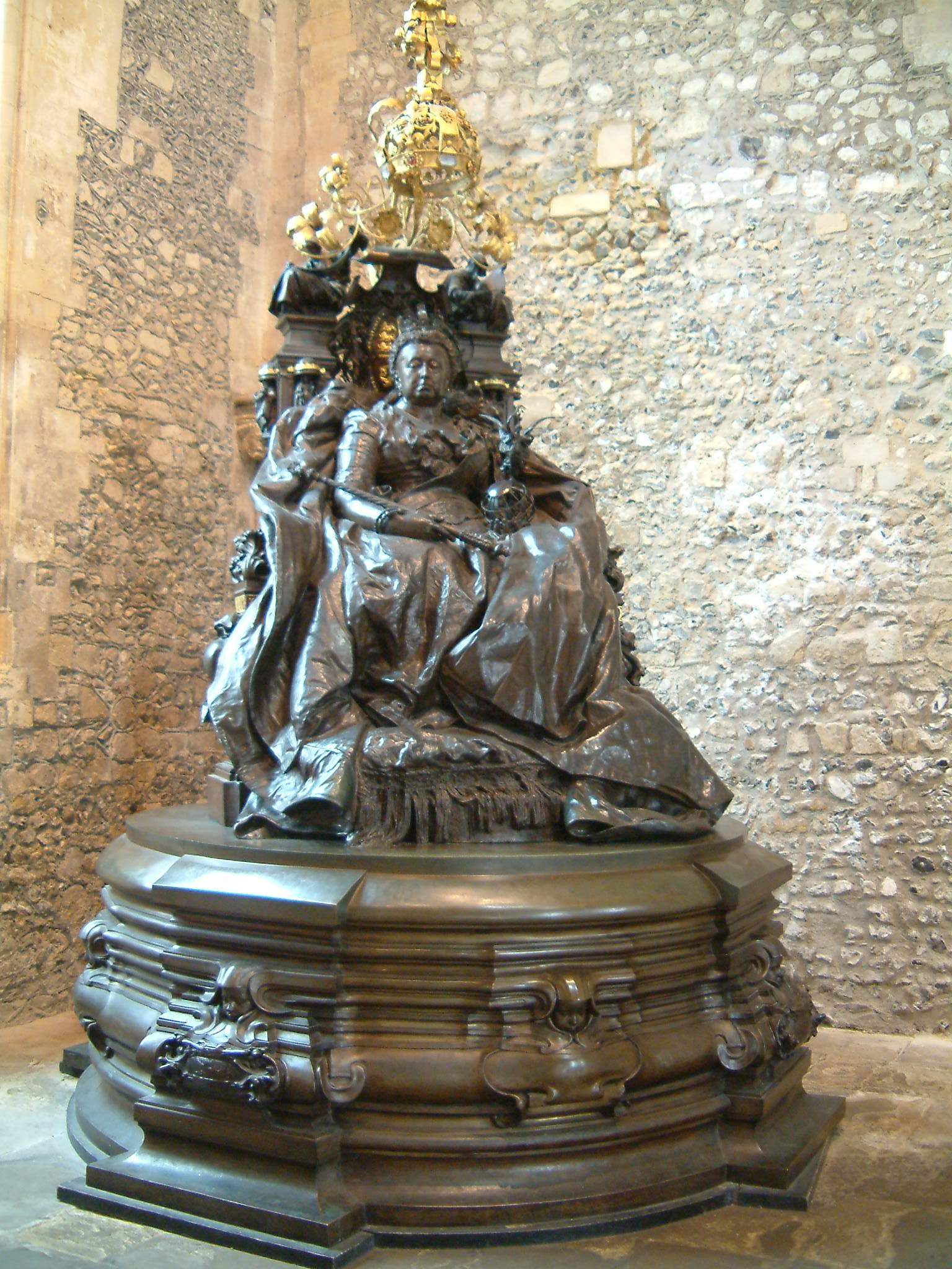 Seated statue of Queen Victoria of the United Kingdom in the Great Hall, Winchester Castle, Hampshire, England